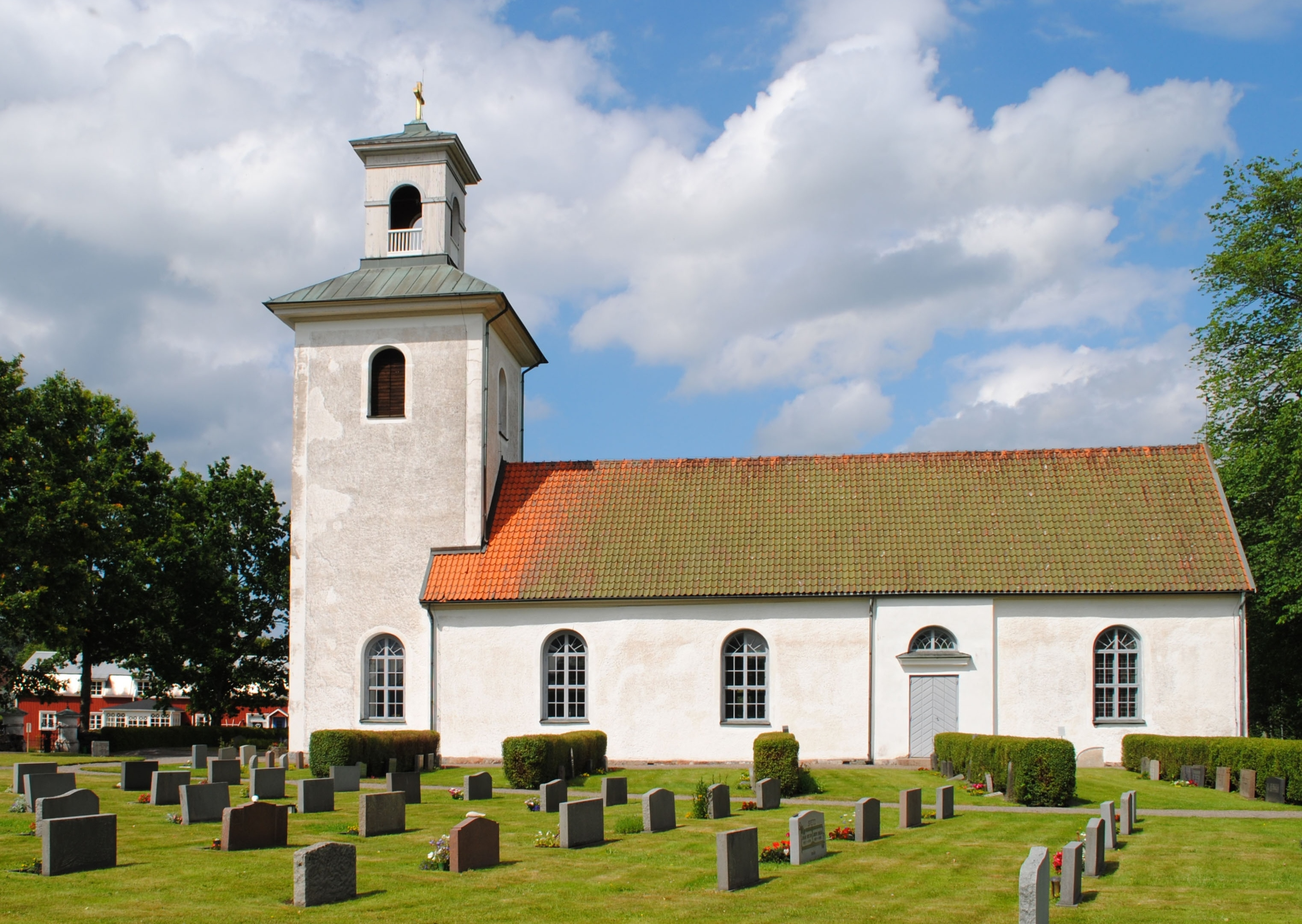 Ramkvilla Church.The Church is considered to have dating from the 14th century. The years 1707-1708 the Church nave was extended to the East, then a new straight out of korparti were built. A new sacristy was built in 1710 by långhusets the North wall with connection to the choir. The years 1832 – 1834, erected towers building in the West after drawings by Axel Almfelt.